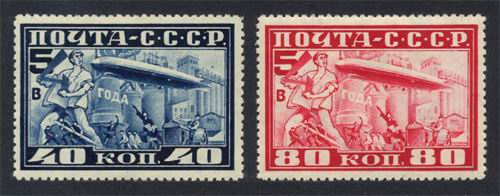 Stamp of USSR